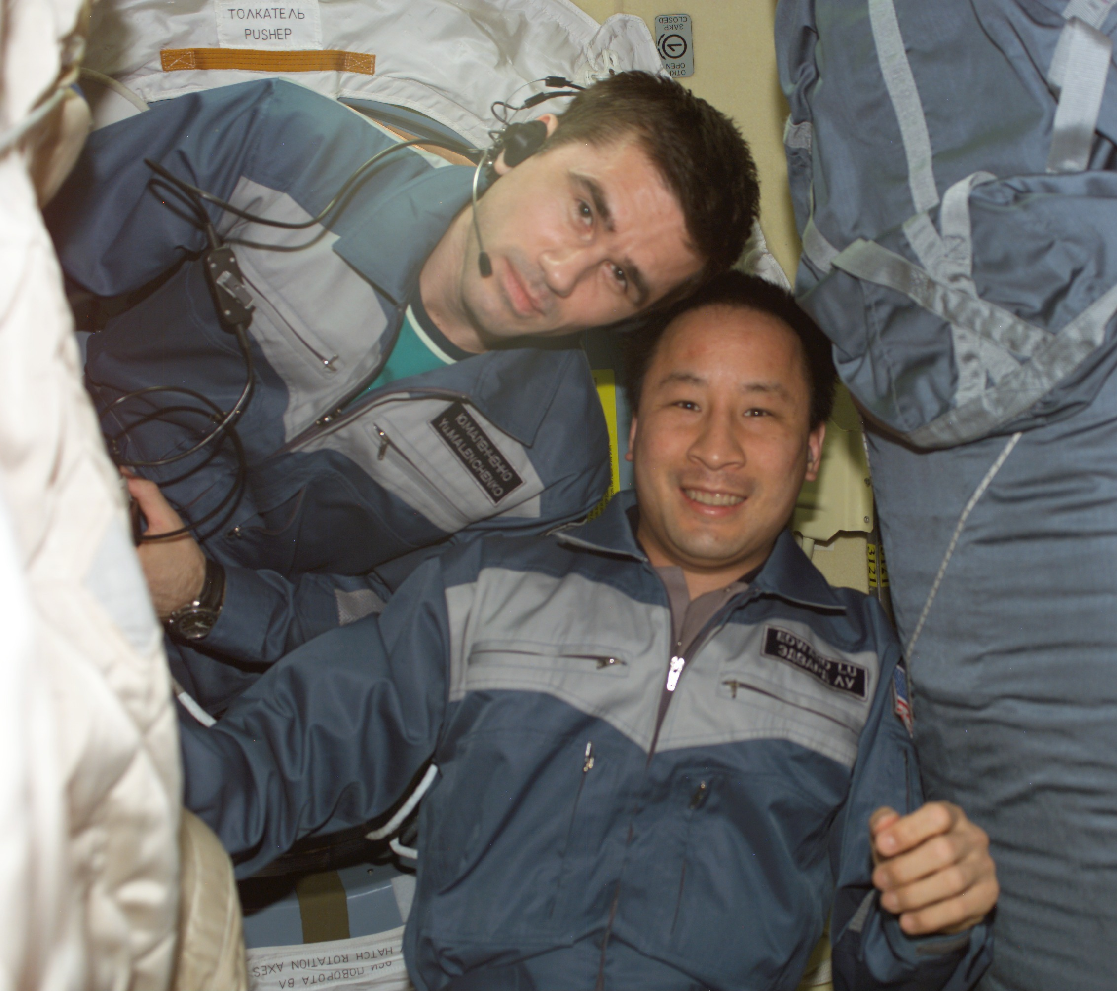 ISS007-E-17761 (20 October 2003) --- The Expedition 7 crewmembers, cosmonaut Yuri I. Malenchenko, mission commander representing Rosaviakosmos; and astronaut Edward T. Lu, NASA ISS science officer and flight engineer, pose for a photo by a camera triggered for a change by something other than auto-set or remote means. The photographer in this case was one of the newly arrived Expedition 8 crewmembers, astronaut C. Michael Foale, American commander and NASA ISS science officer and cosmonaut Alexander Kaleri, Russian flight engineer and Soyuz commander; or possibly European Space Agency astronaut Pedro Duque, who joined the Expedition 8 crew for the trip "up" and who will return to Earth on Oct. 28 with the Expedition 7 crew.